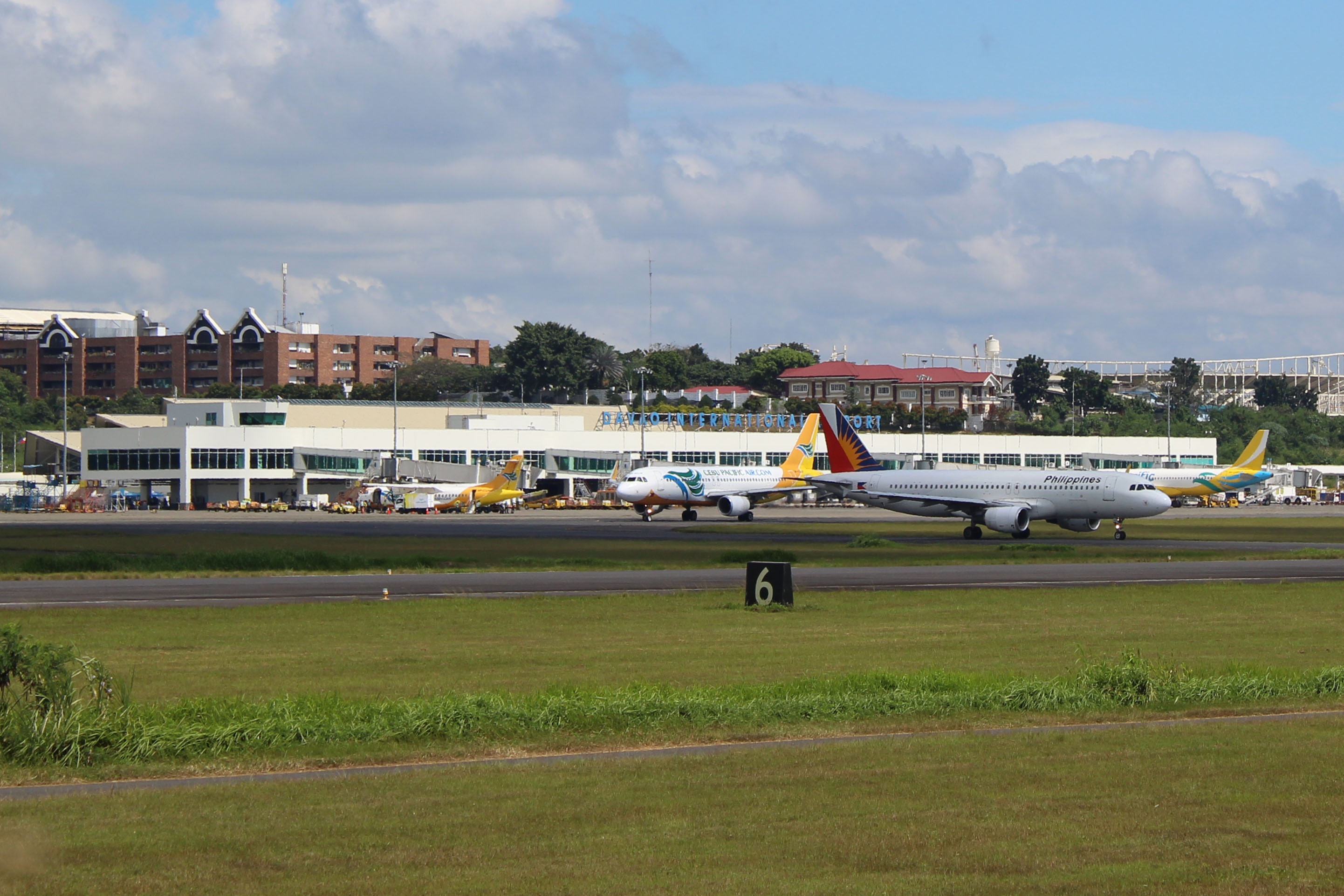 The Francisco Bangoy International Airport in Davao City is the main air gateway in the island of Mindanao; thus, it has the most number of flights and passengers in the region.